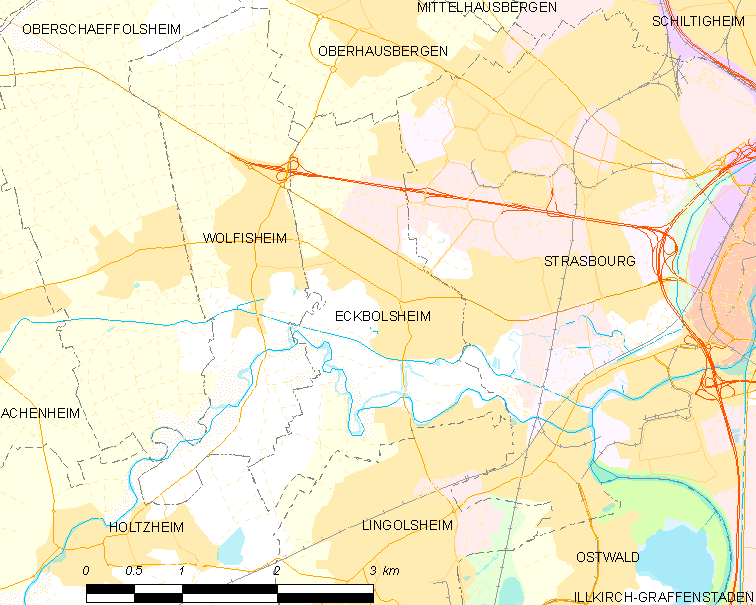 Map of French municipality